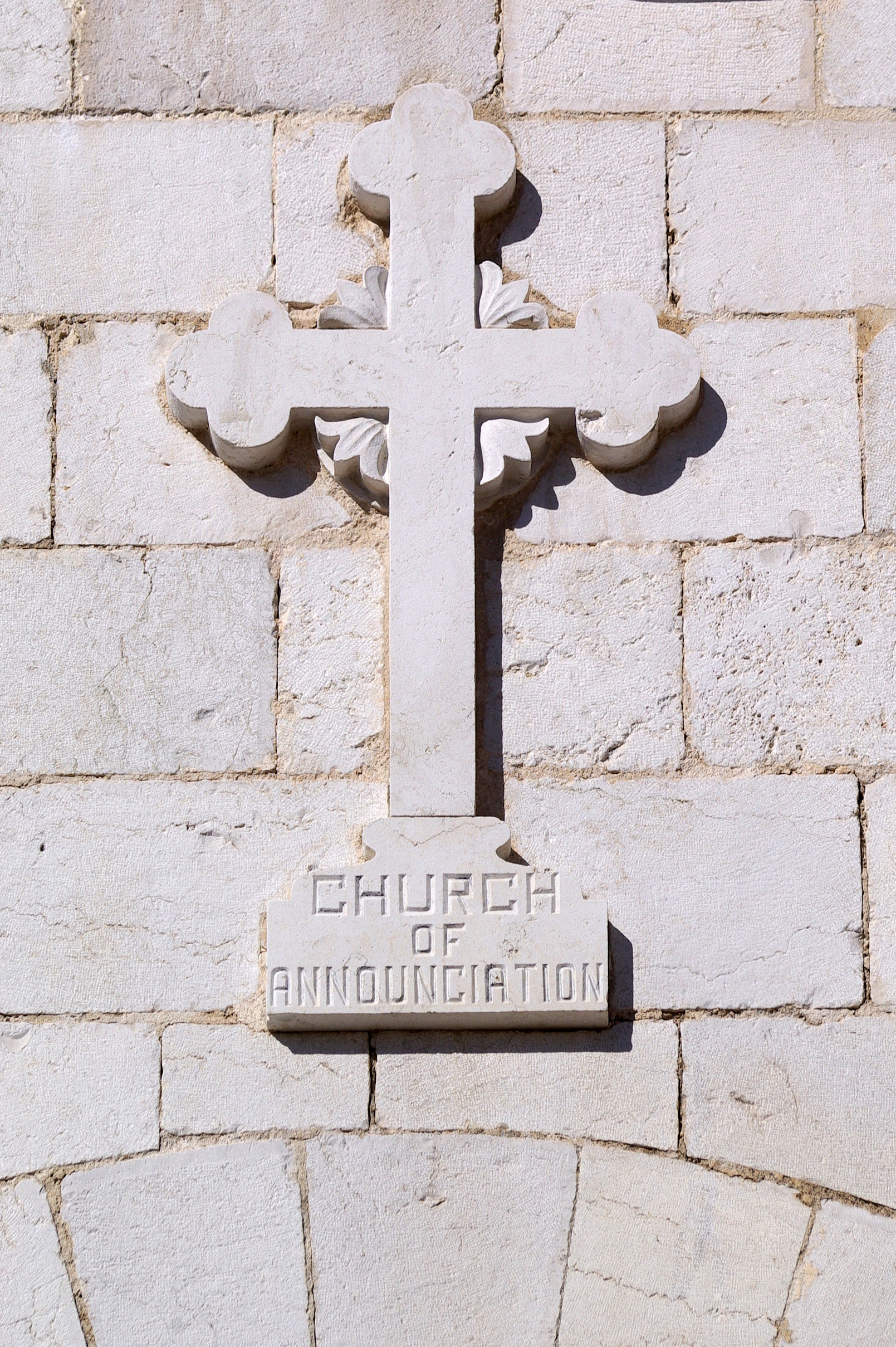 St. Gabriel's Greek Orthodox Church in Nazareth